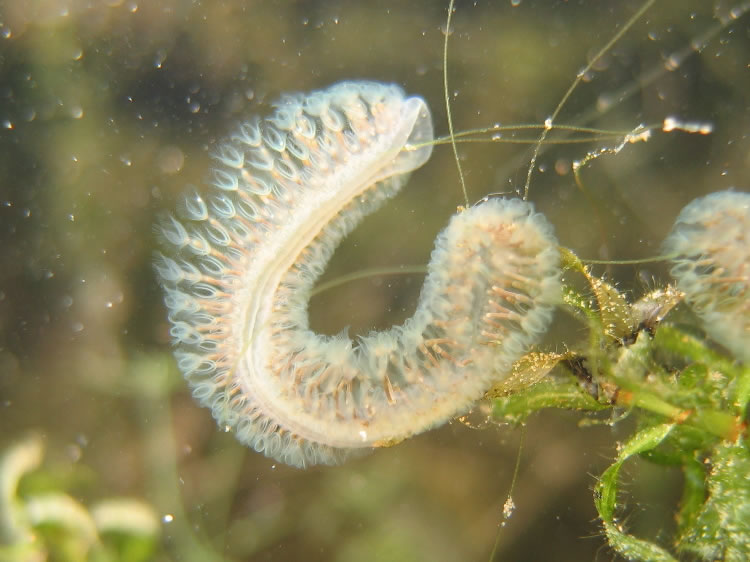 A fresh water photo of a Bryozoa, taken in "De Beldert" located near Tiel, The Netherlands. Cristatella spec.